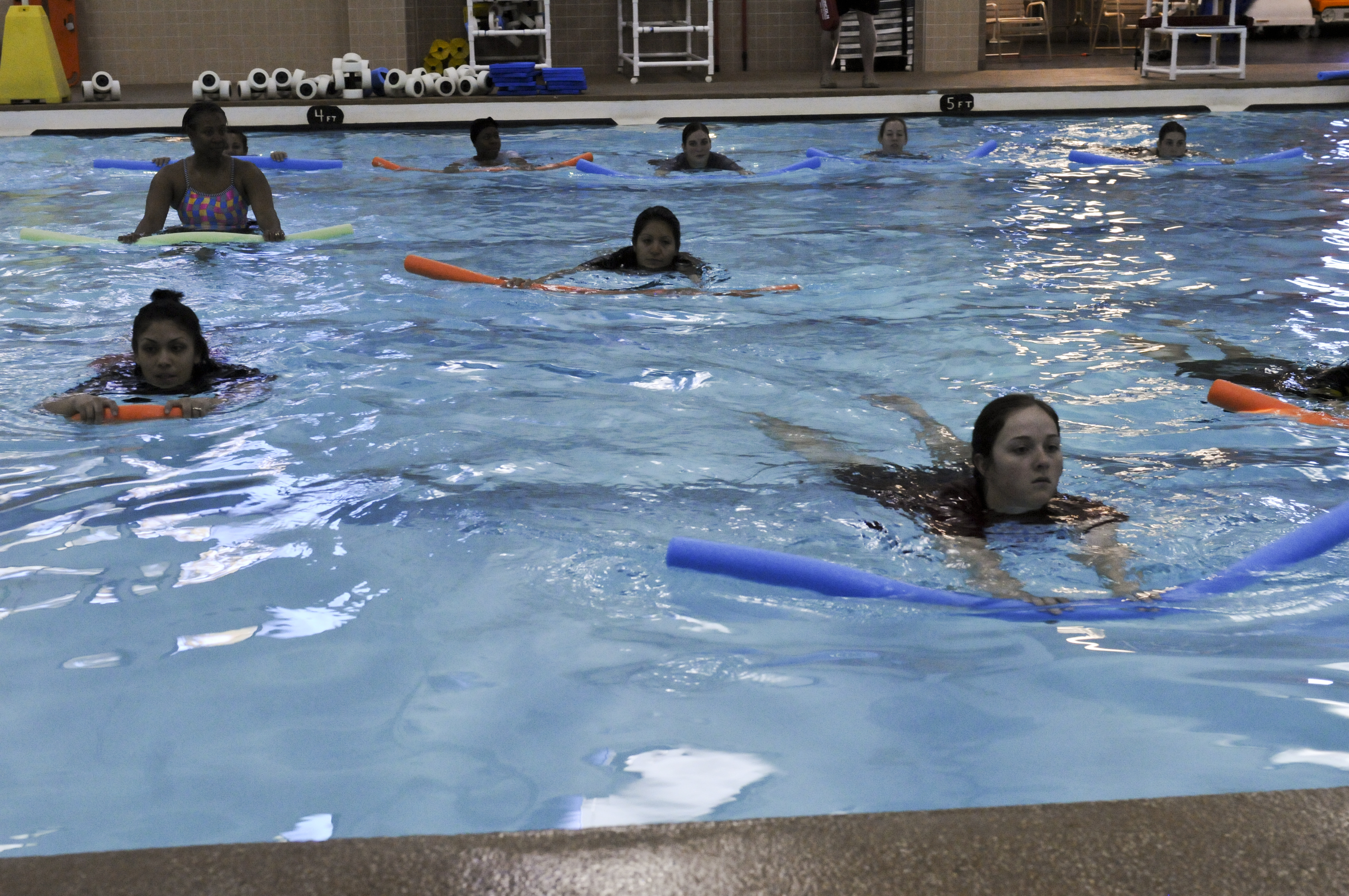 Participants in the Pregnancy Postpartum Physical Training Program use swim noodles as part of their workout, at the Fort Carson indoor pool, Nov. 20, 2013. As part of the P3T program, swimming provides a low-impact alternative to get a good cardio workout. (U.S. Army photo by Sgt. William Smith, 4th Inf. Div. PAO)